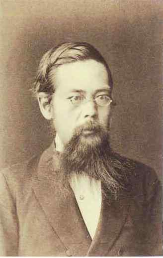 Aoki Shūzō (青木 周藏?, March 3, 1844 – February 16, 1914) was a diplomat and Foreign Minister in Meiji period Japan.